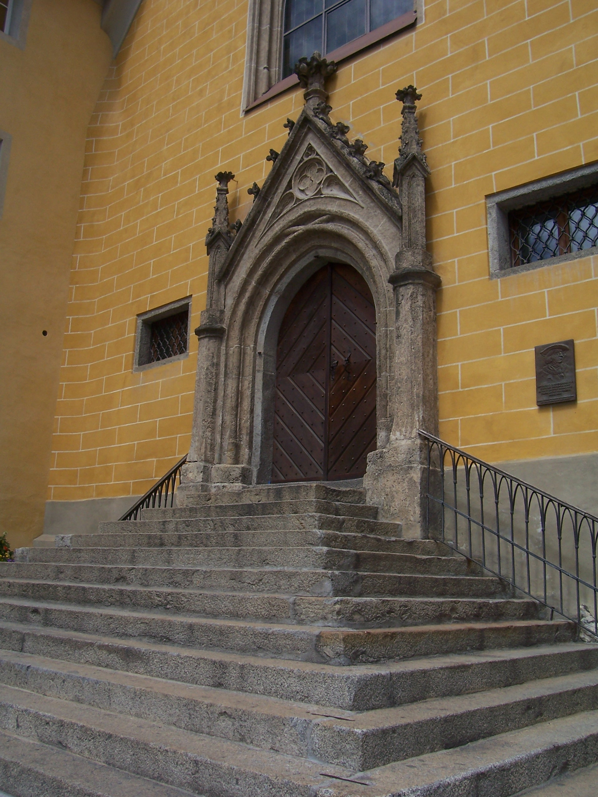 Chiesa delle Orsoline a Brunico (Alto Adige) - Ursulinenkirche in Bruneck (Südtirol) - Ursuline Church in Brunico/Bruneck (South Tyrol)